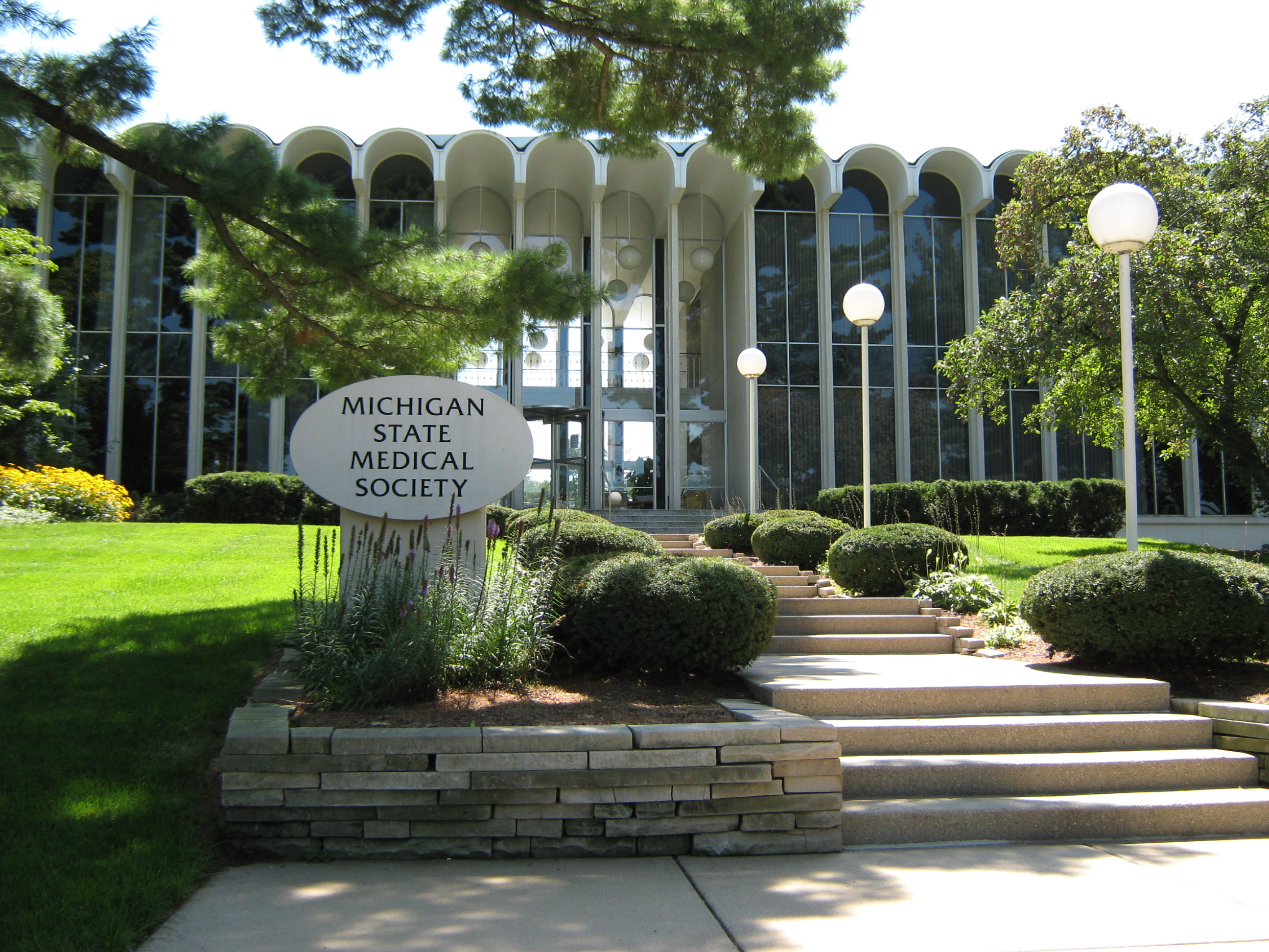 Michigan State Medical Society headquarters in East Lansing, Michigan. The building was designed by renowned architect Minoru Yamasaki.